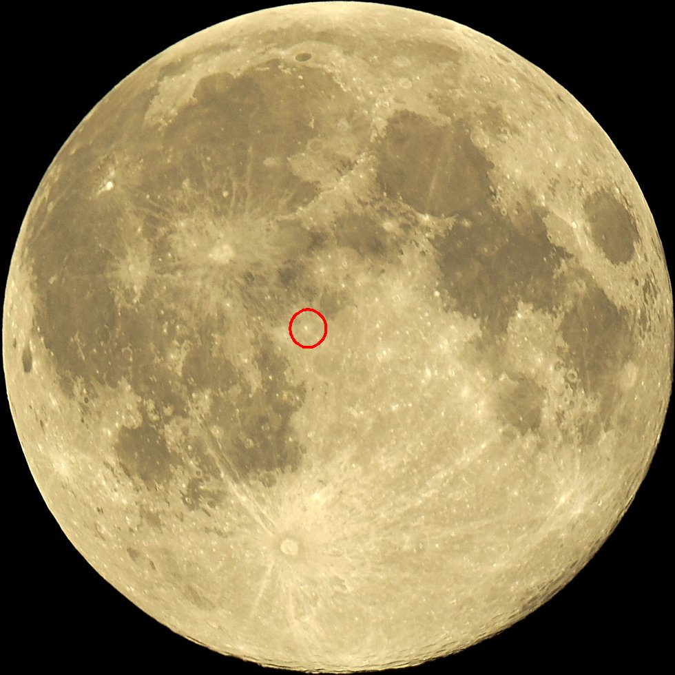 Location of crater Herschel on the Moon